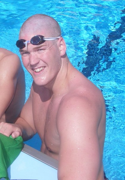 Jakob Dorch